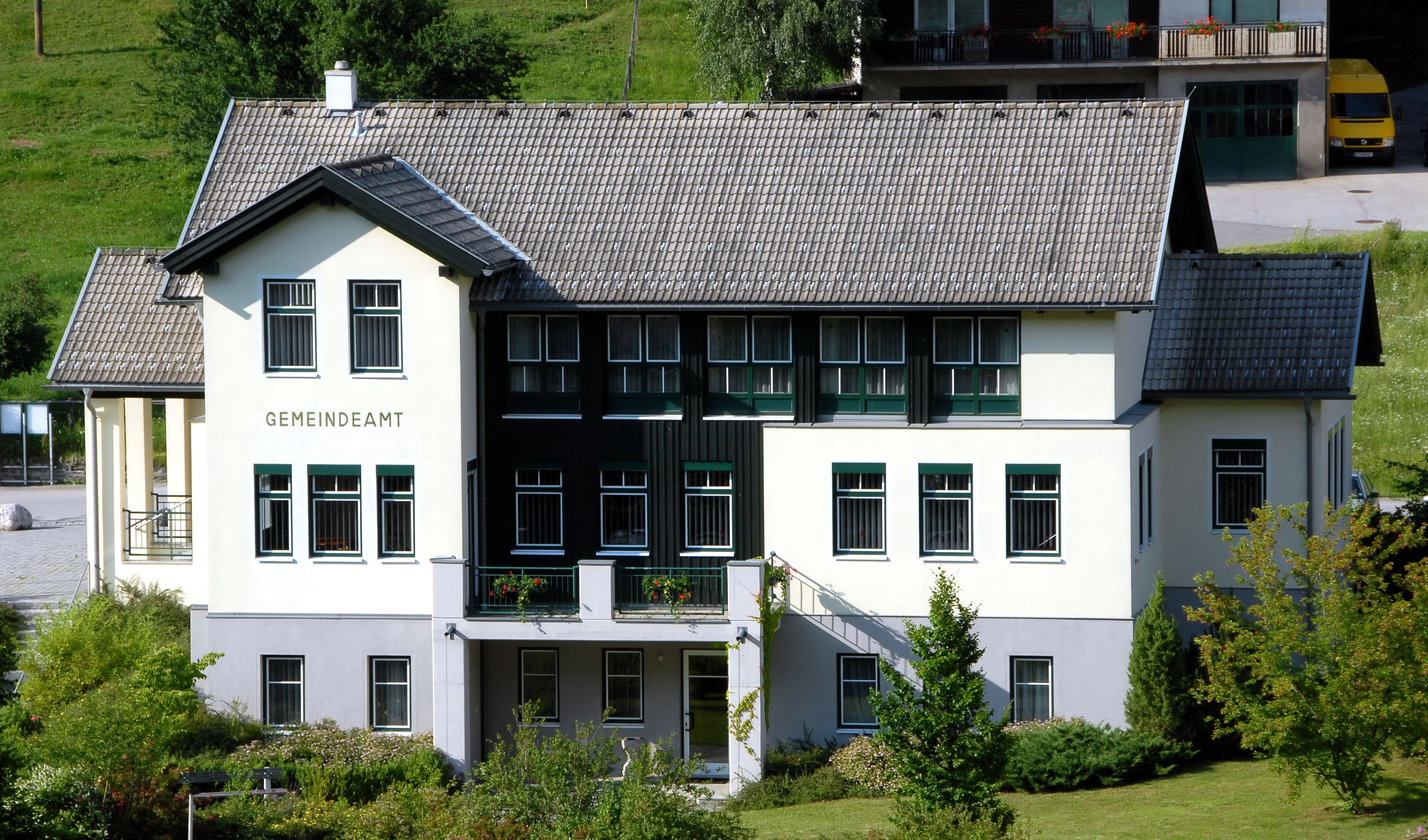 Municipal office at Deutsch-Griffen, district Saint Veit on the Glan, Carinthia, Austria